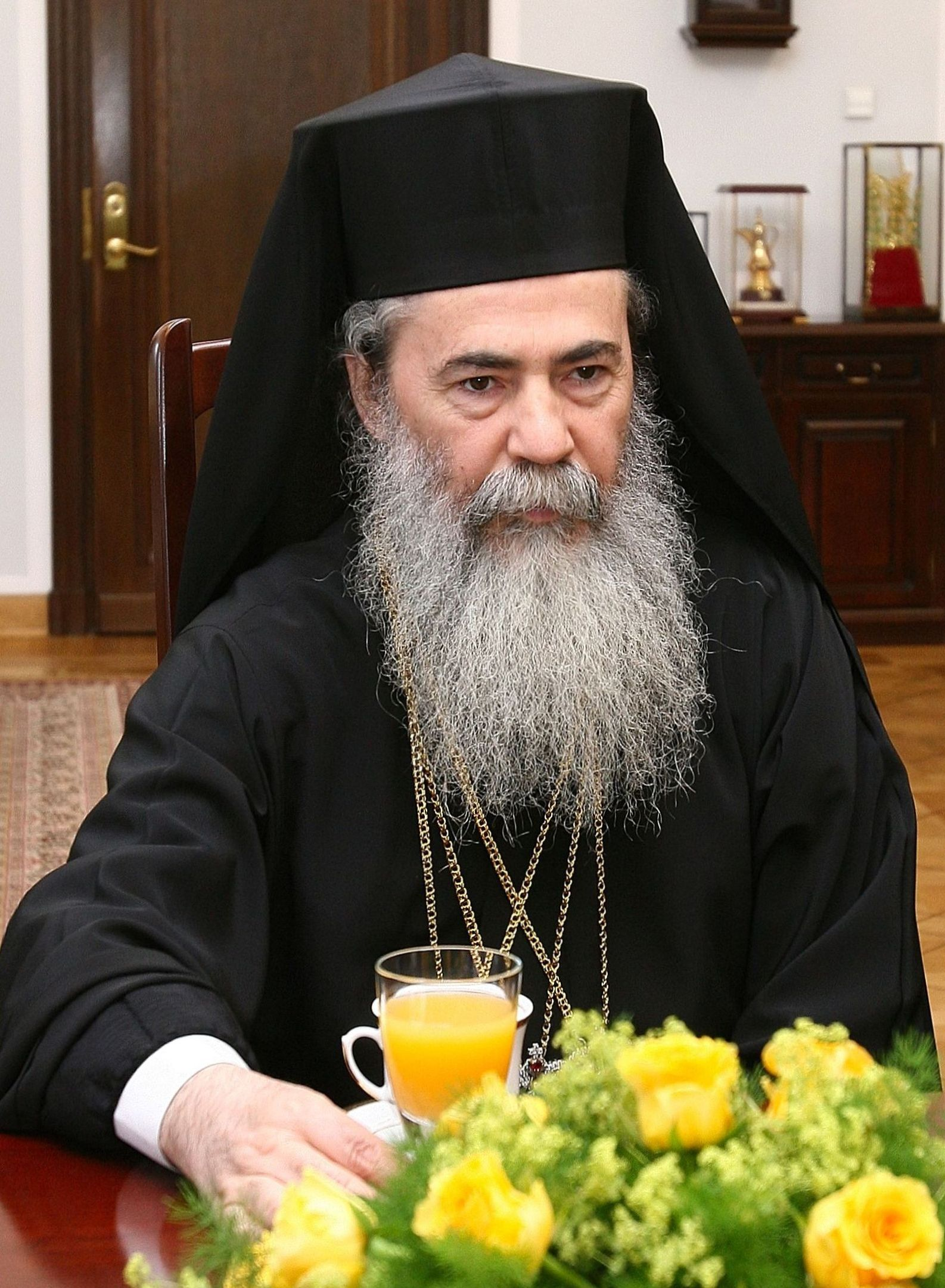 Patriarch Theophilos III of Jerusalem in the Polish Senate